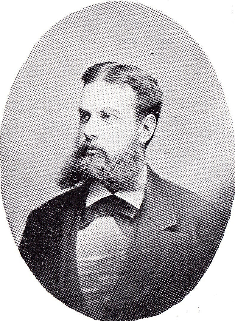 Swedish consul Fredrik Enhörning, b. July 3 1848, d. June 11, 1914.